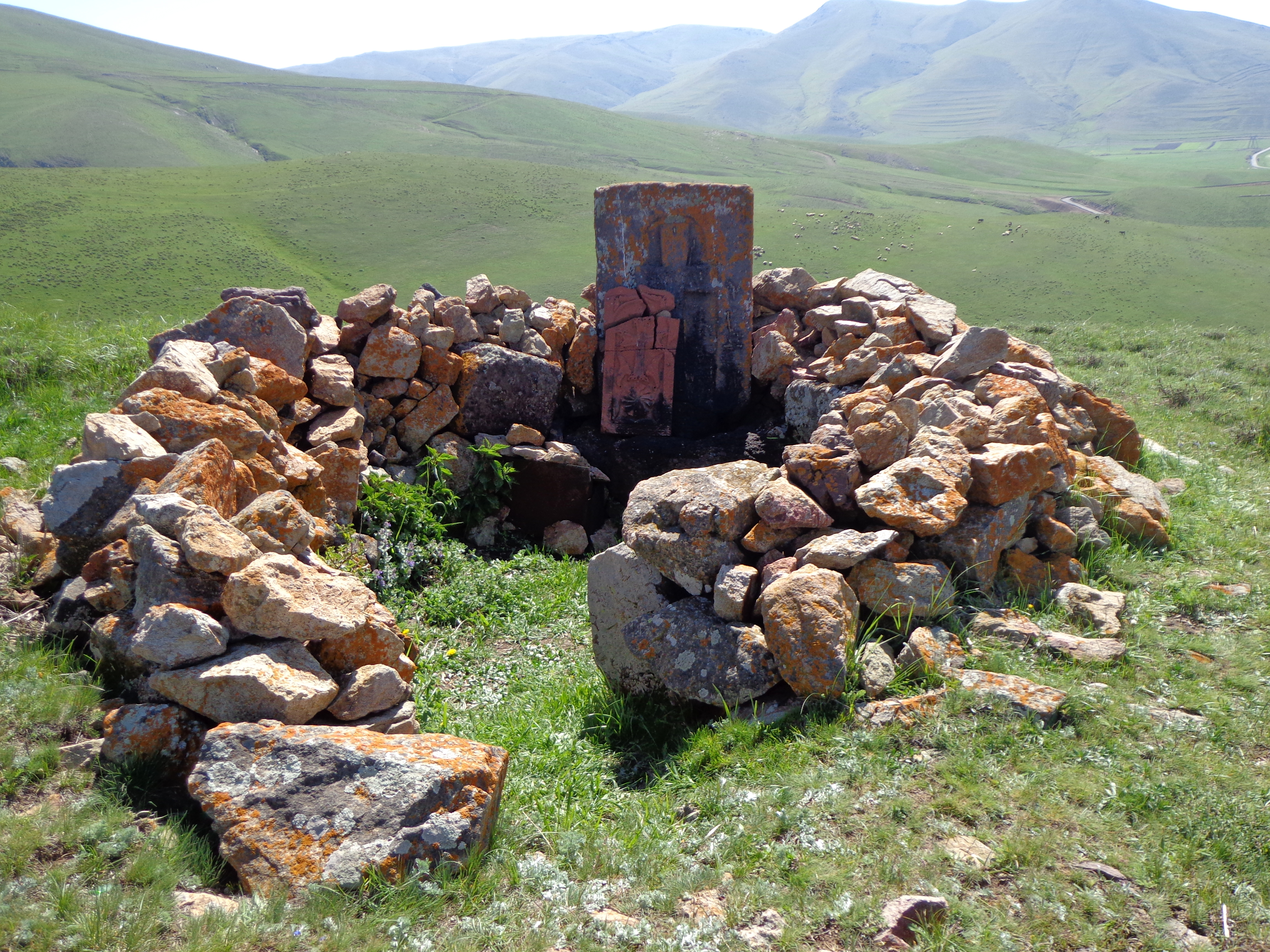 Saint Hovhannes Chapel